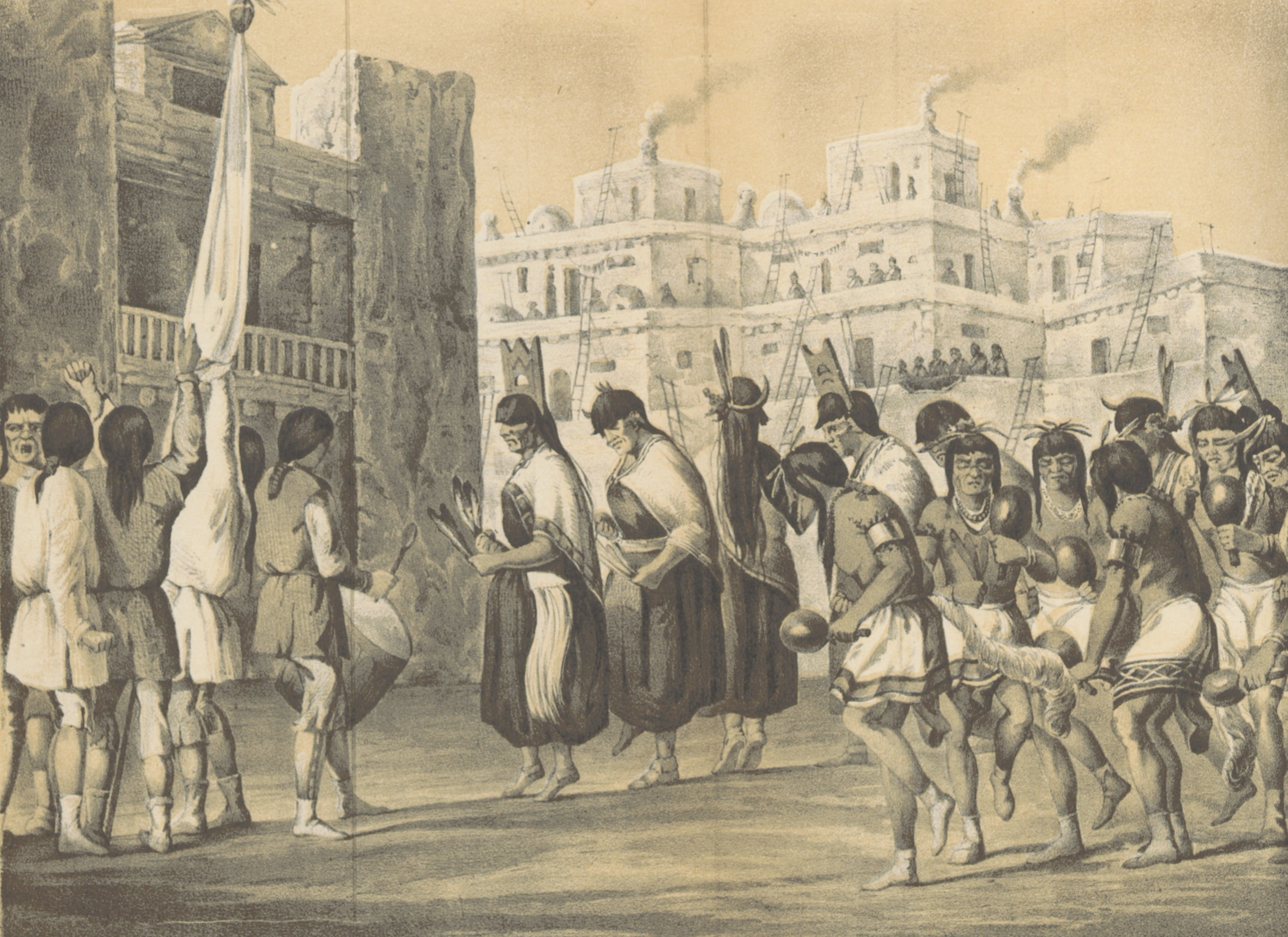 Image taken from: Title: "Report of an expedition down the Zuni and Colorado Rivers by Captain L. Sitgreaves ... Illustrations. (Report on ... Natural History ... by S. W. Woodhouse. Zoology: mammals and birds by S. W. Woodhouse; reptiles by E. Hallowell; fishes by S. F. Baird and C. Girard. Botany: by Professor J. Torrey. Medical report; by S. W. Woodhouse.)" Author: SITGREAVES, Lorenzo. Contributor: Baird, Spencer Fullerton Contributor: Girard, Charles Contributor: HALLOWELL, Edward. Contributor: Torrey, John Contributor: WOODHOUSE, S. W. Shelfmark: "British Library HMNTS 10408.d.14." Page: 14 Place of Publishing: Washington Date of Publishing: 1853 Issuance: monographic Identifier: 003399095 Explore: Find this item in the British Library catalogue, 'Explore'. Download the PDF for this book (volume: 0) Image found on book scan 14 (NB not necessarily a page number) Download the OCR-derived text for this volume: (plain text) or (json) Click here to see all the illustrations in this book and click here to browse other illustrations published in books in the same year. Order a higher quality version from here.